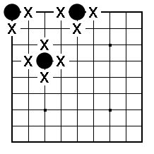 Go Course dia 1.3